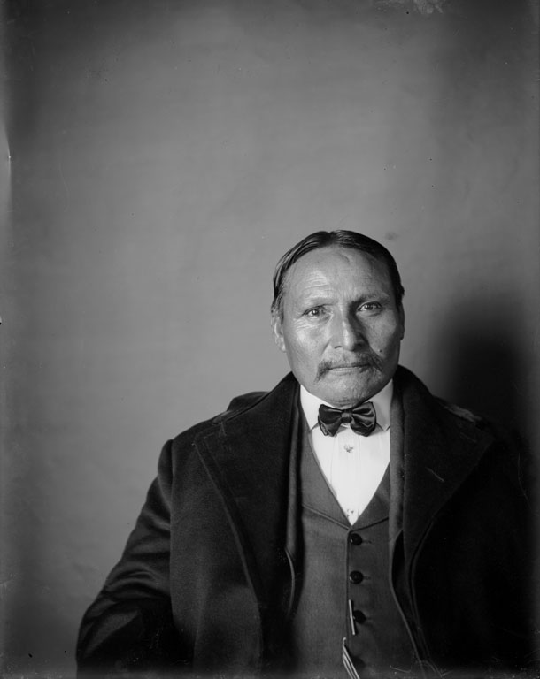 Portrait of Lone Wolf the younger (c, 1843-1923, also Lone Wolf the Second, originally named Mamamy-day-te, Mamay-dat-ta or Mamadayte), converted to christianity in 1893 and member of the Elk Creek Baptist Church, tribal delegate in Washington and representer of his tribe in the opening of the reservation to homesteading in 1901.